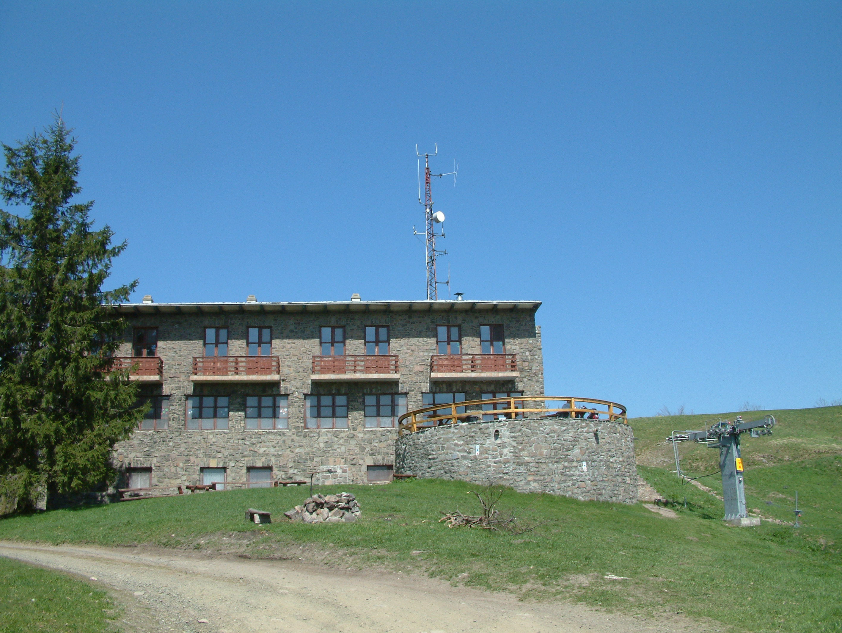 Nagy-Hideg-hegy tourist house